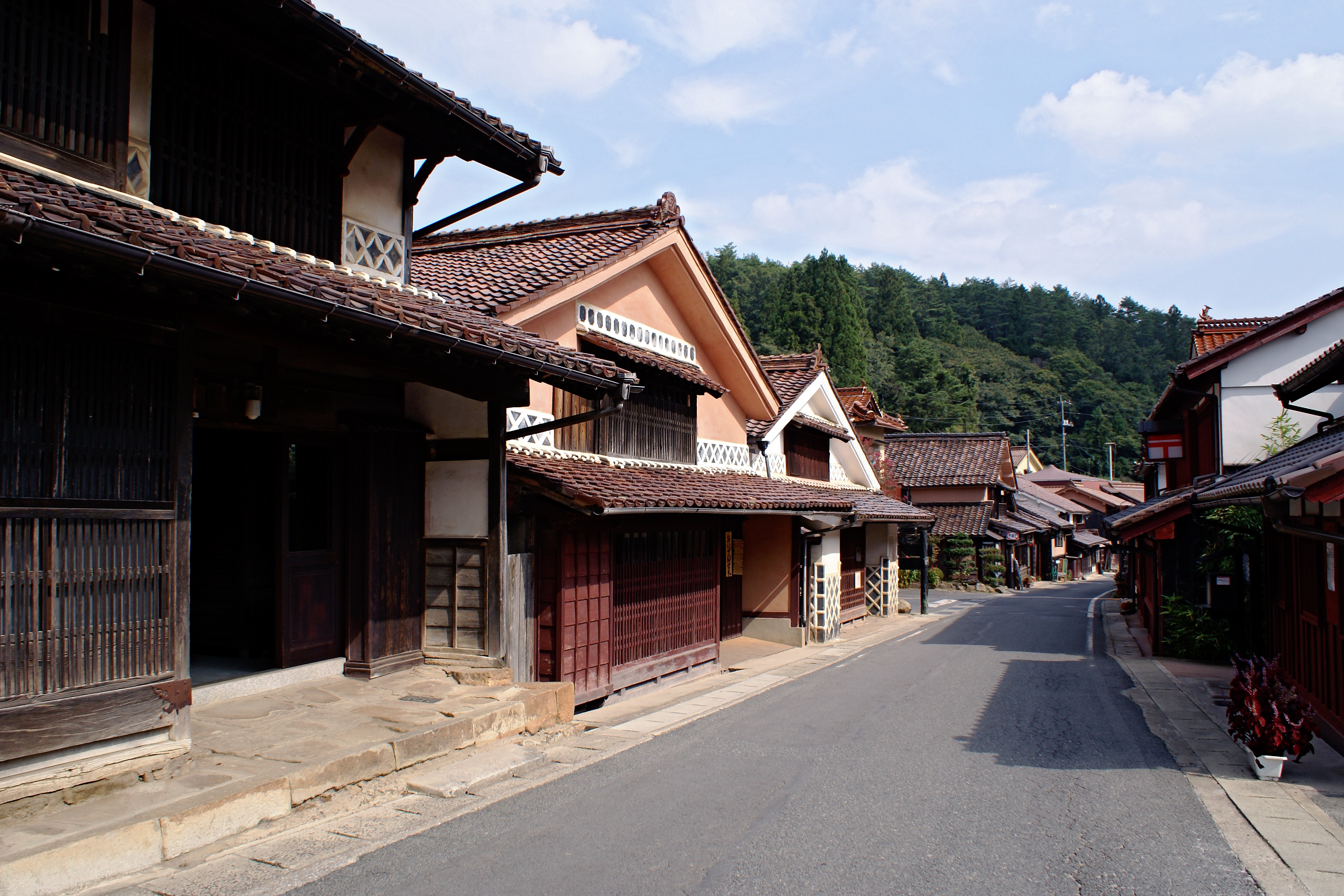 Fukiya in Takahashi, Okayama prefecture, Japan